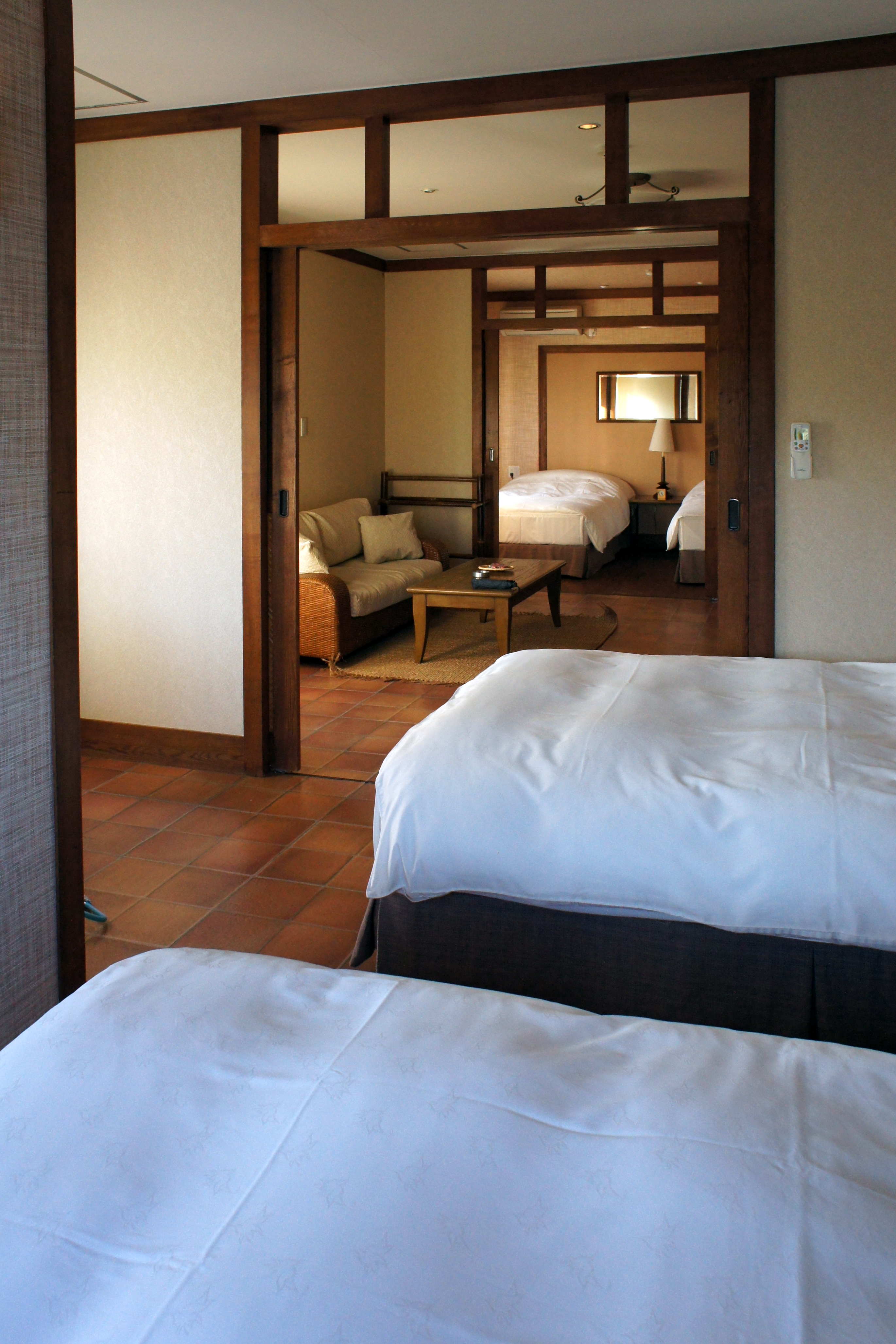 Auberge Kabira at Kabira Park in Ishigaki Island, Ishigaki City, Okinawa Prefecture, Japan.